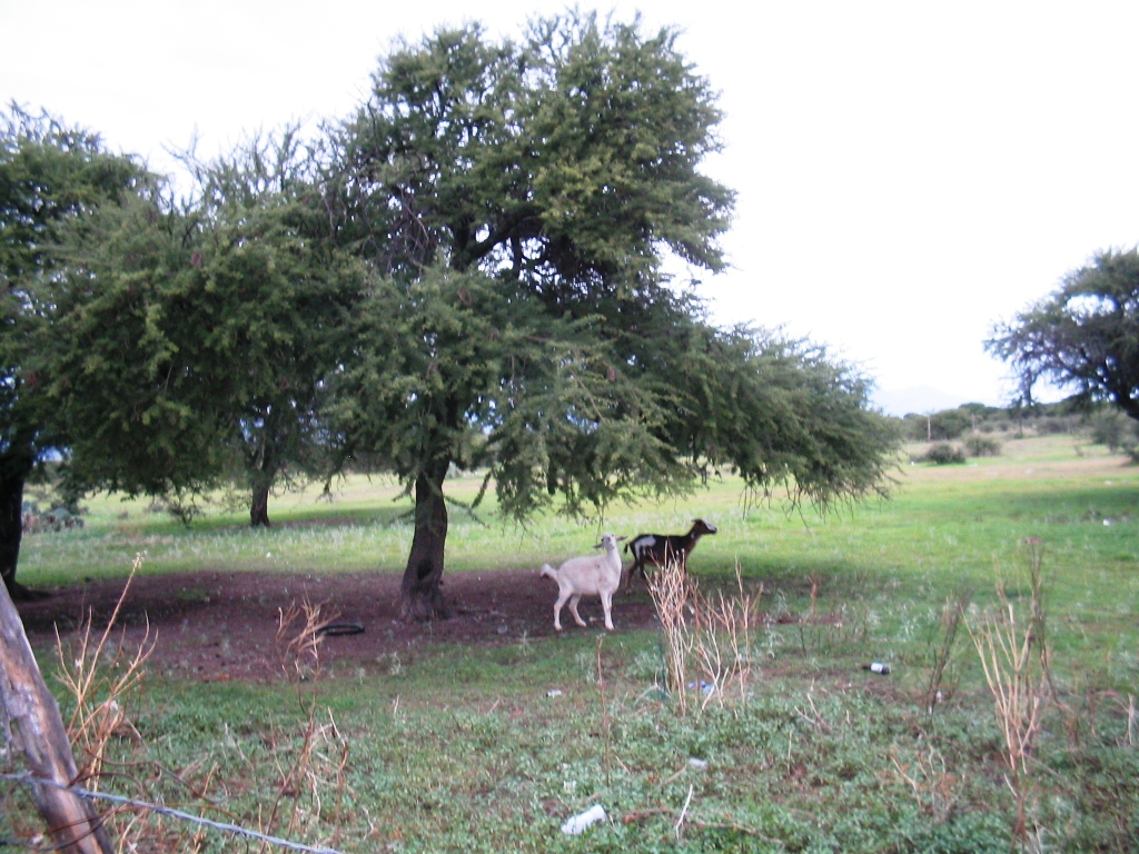 Acacia schaffneri being eaten by goats.